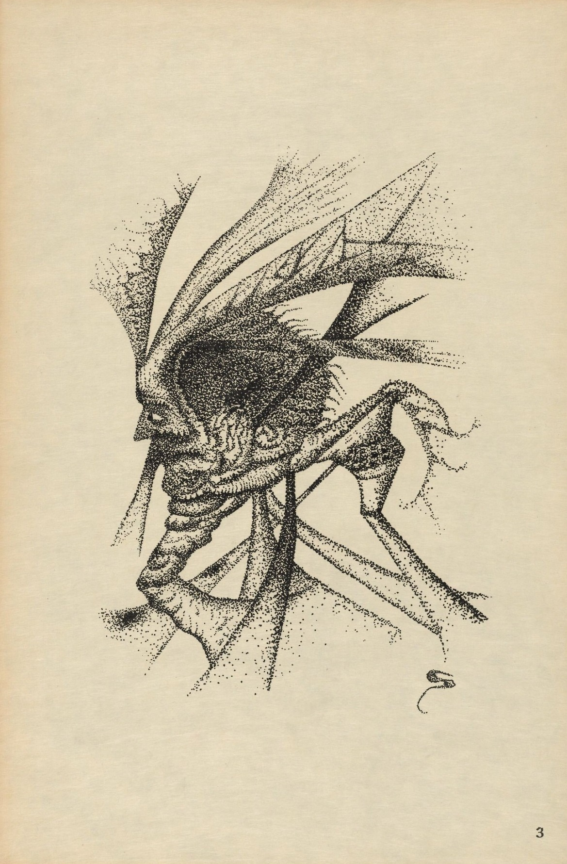 Illustration, plate 3, from Jenseits-Galeri (Berlin: 1907), by Paul Scheerbart (1863-1915). Typ 920.07.7733, Houghton Library, Harvard University